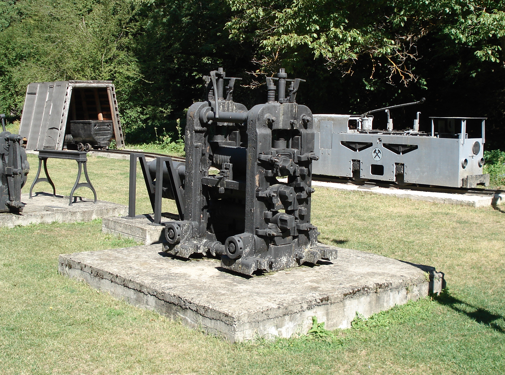 Old rolling stand. Massa Museum, Újmassa, Miskolc, Hungary